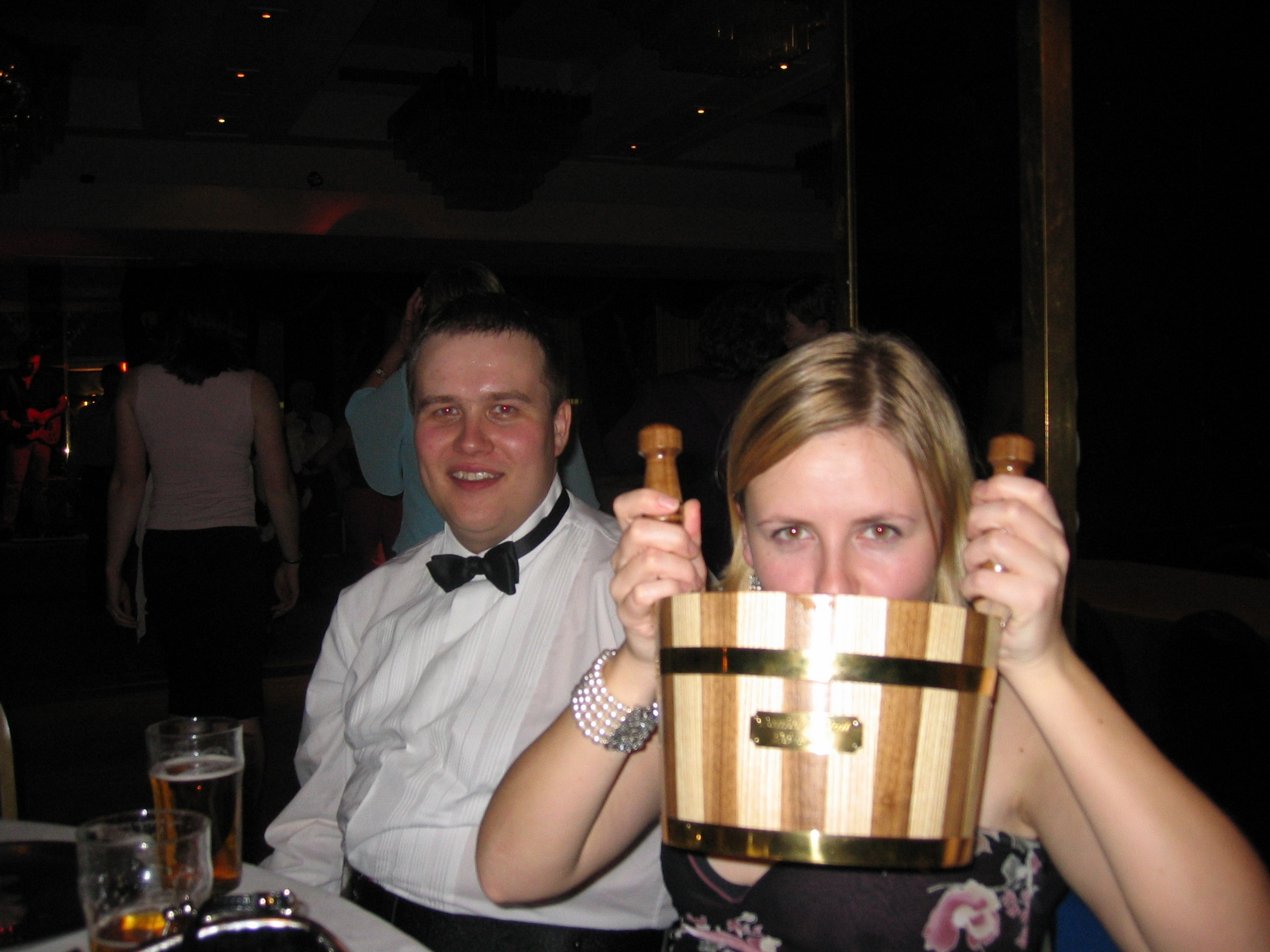 In Orkney they traditionally drink out of buckets.